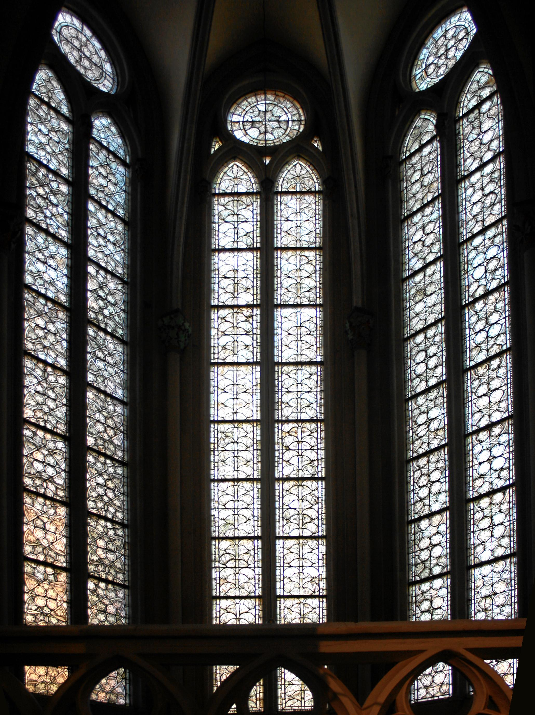 "Bergischer Dom" in Odenthal-Altenberg, Germany. Gothic grisaille windows in the ambulatory of the choir.